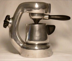 Coffee machine from the Brevetti Robbiati (Milan) business. Designer: Giordano Robbiati. Patent: IT26168 (1946-09-14)